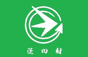 Flag of Yomogita Aomori